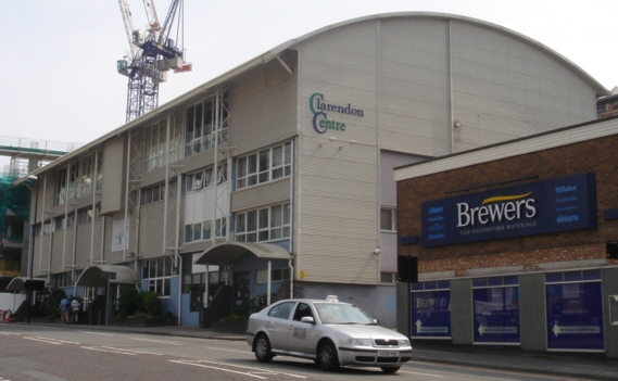 The Clarendon Centre, New England Street, New England Quarter, City of Brighton and Hove, England. A large, warehouse-style building used as a place of worship by the Evangelical Christian Church of Christ the King.